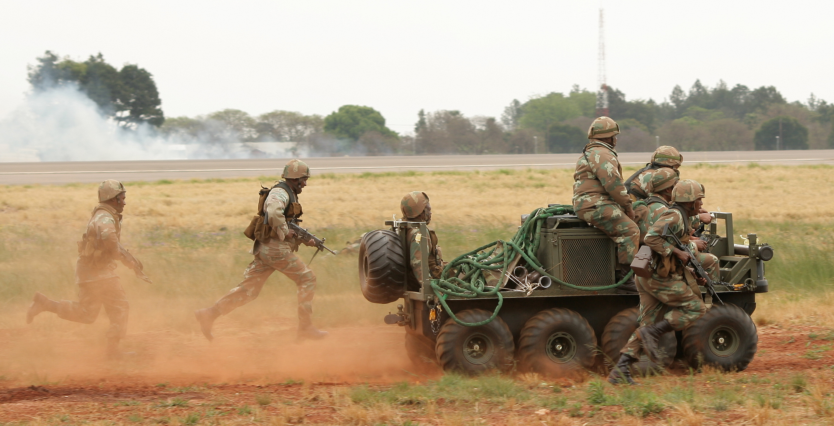 A Gecko 8x8 ATV in use by 44 Parachute Brigade (South Africa) during a mock battle at the 2011 AFB Waterkloof airshow